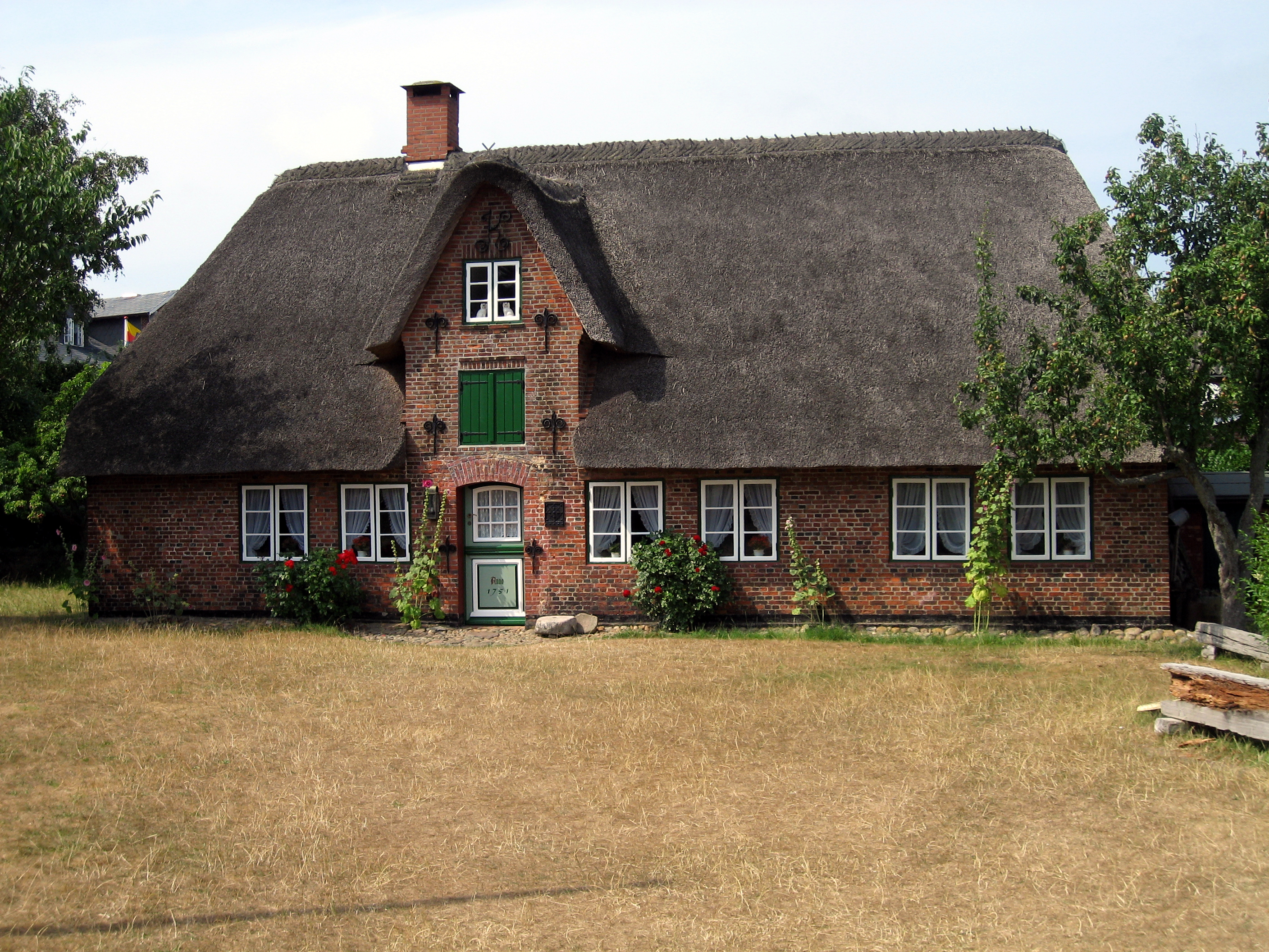 Amrum, Gemeinde Nebel, Öömrang Hüs, Museum This is a photograph of an architectural monument.It is on the list of cultural monuments of Nebel